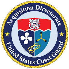 Acquisition Directorate (CG-9) seal of the United States Coast Guard.